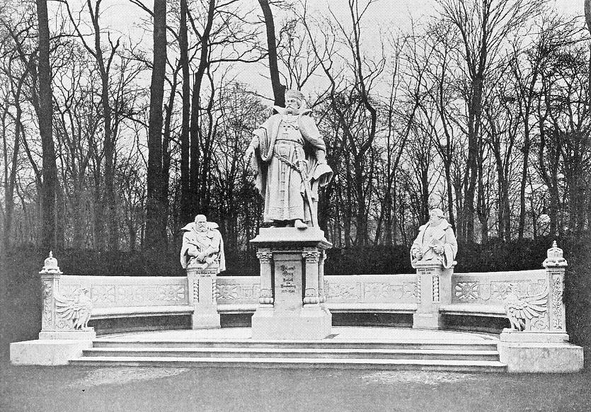 Monument group № 21 in the former Siegesallee in Berlin. The central monument commemorates John George, Elector of Brandenburg. The bust on the left commemorates Count Rochus zu Lynar; the bust on the right Chancellor Lampert Distelmeyer. Sculptor: Martin Wolff. The sculpture was unveiled on 18 December 1901.